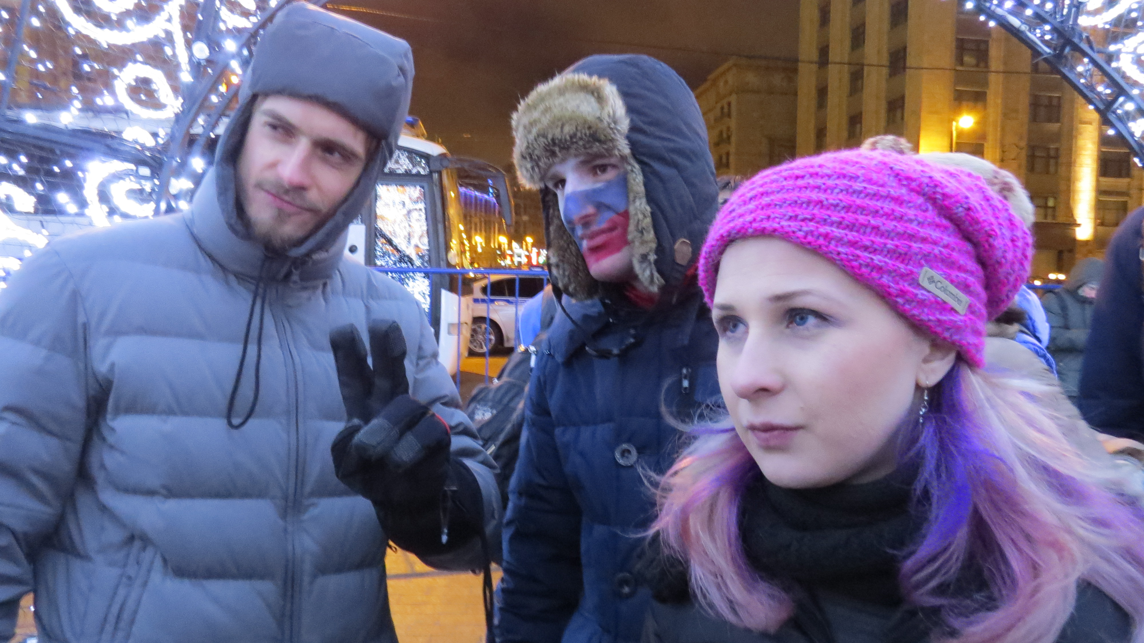 Protest against Navalnys' conviction on 30.12.2014 in Moscow. Christmas sphere on Manezhnaya square.